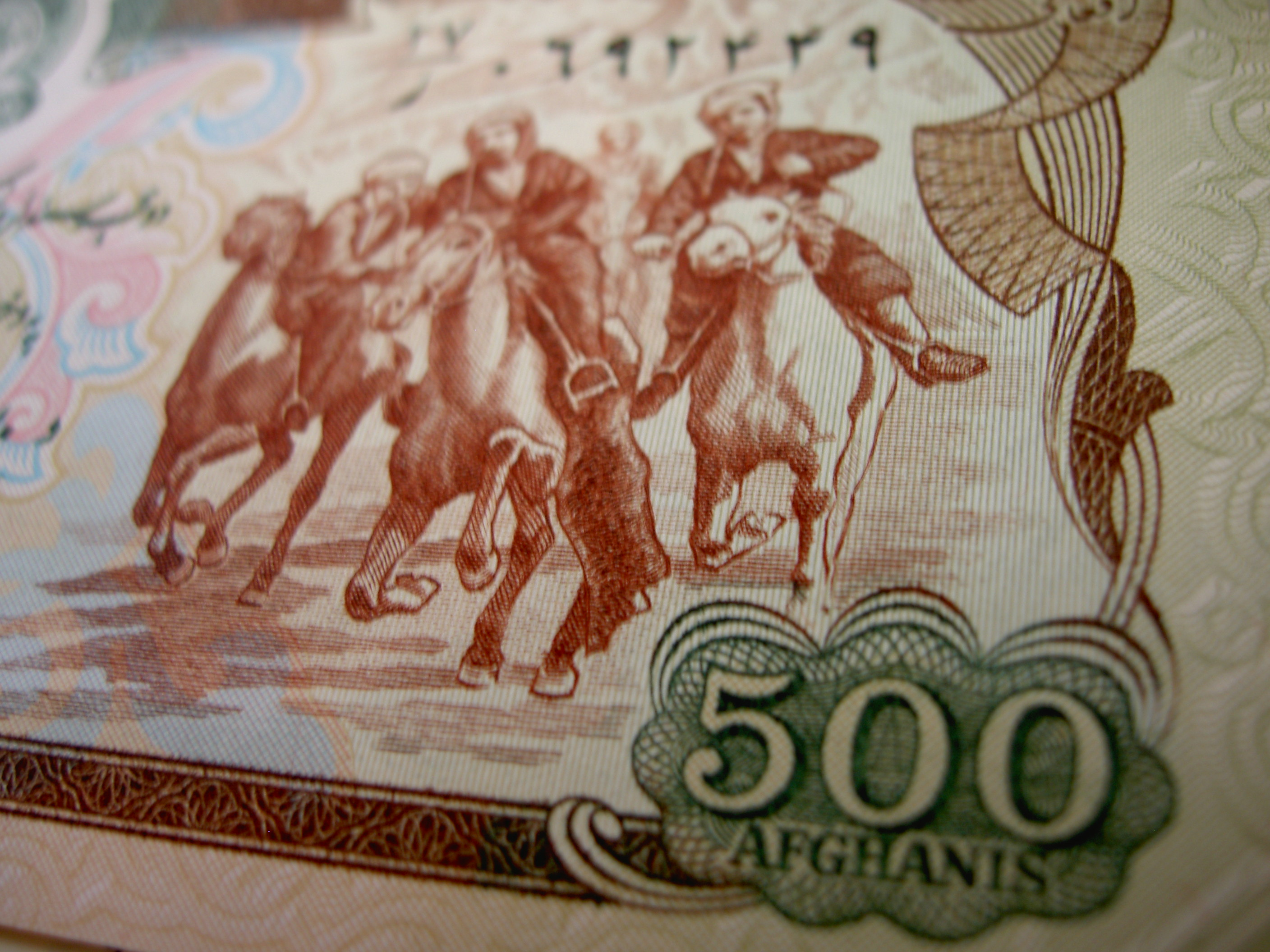 A 500 Afghanis bill closeup showing the 500 Afghanis written and a picture of men playing Buzkashi.